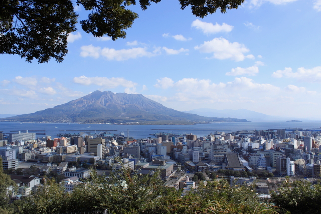 Mt. Sakurajima and the city of Kagoshima.